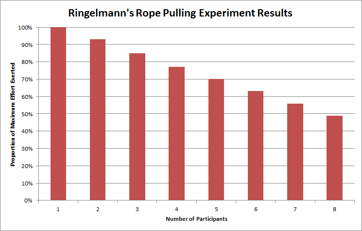 Self-made results sourced from data on page 9 of the following document